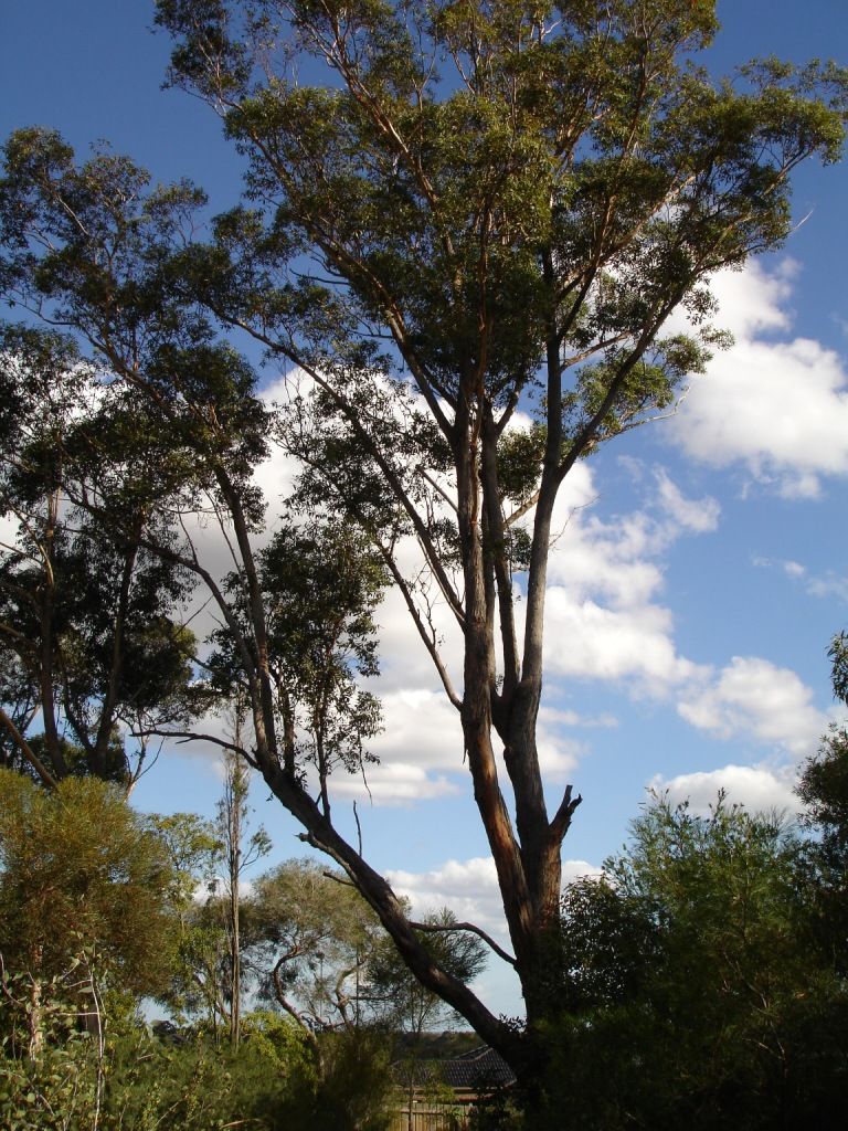 Eucalyptus botryoides Photographed at Maranoa Gardens, Melbourne, Victoria, Australia HelloMojo 07:57, 6 April 2007 (UTC)